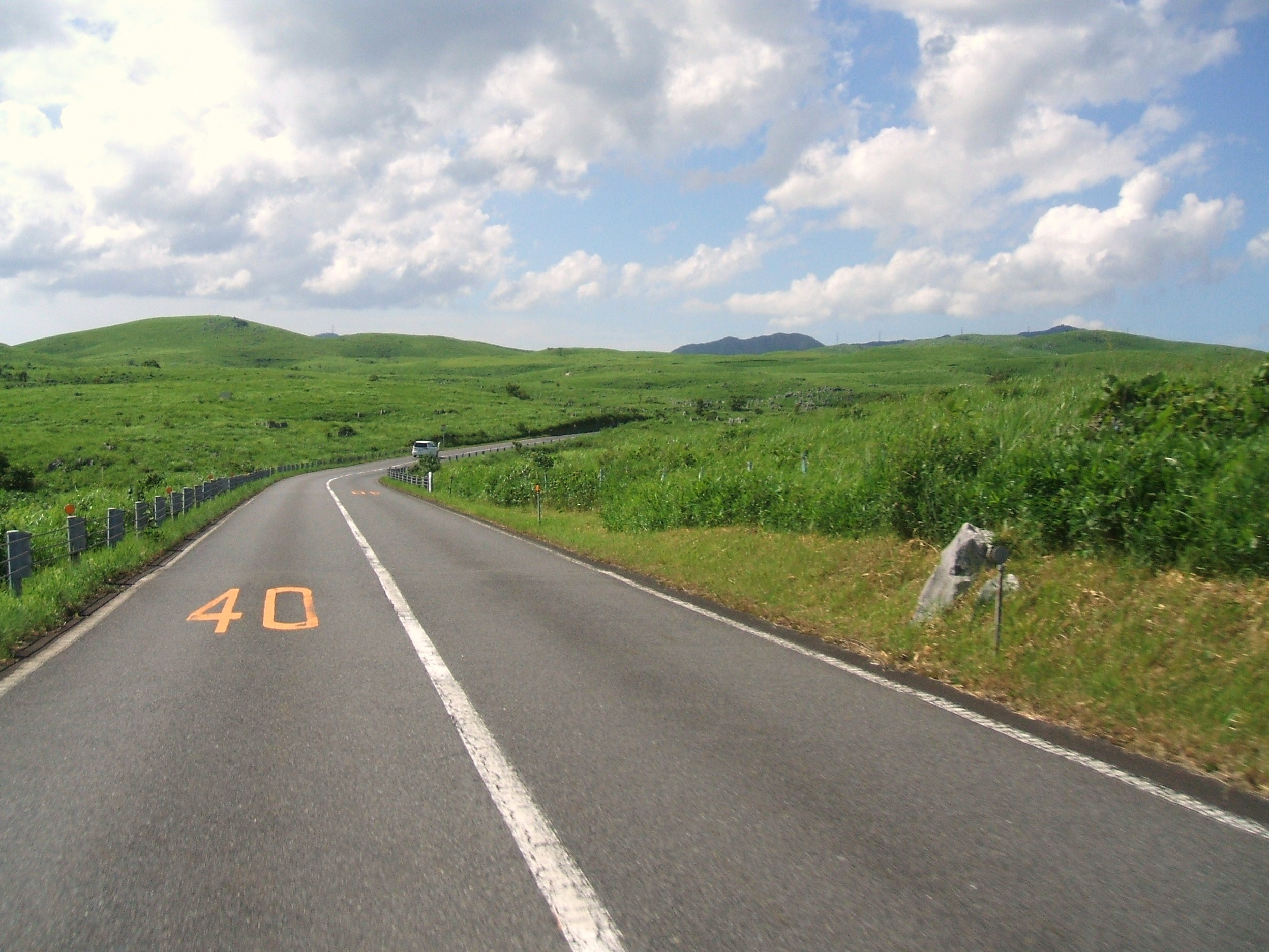 Akiyoshidai Road (Yamaguchi-Pref.Road #32)